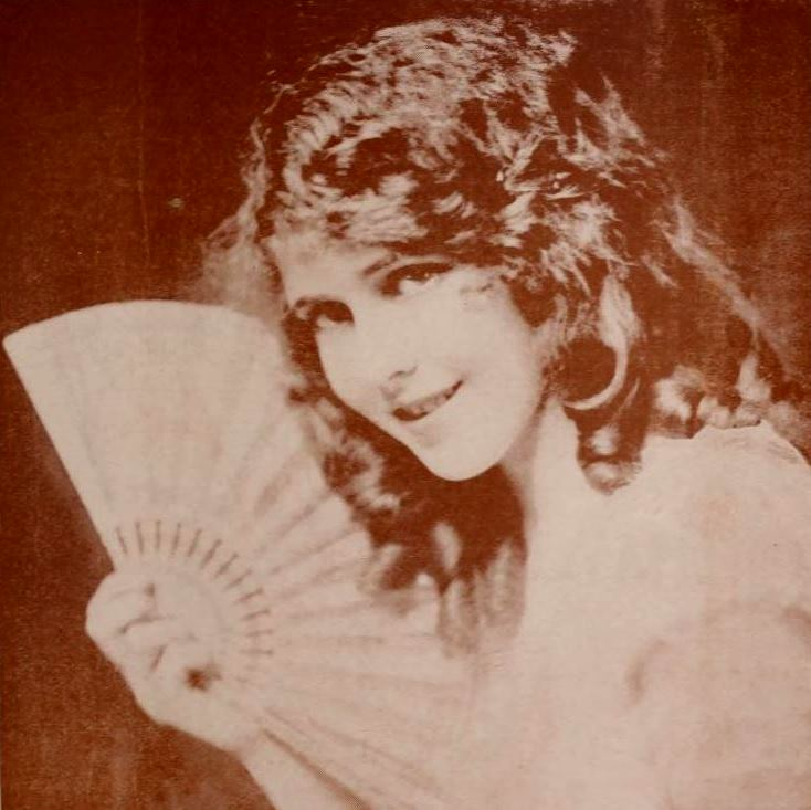 Actress June Caprice, on the cover of the February 23, 1918 Exhibitors Herald.